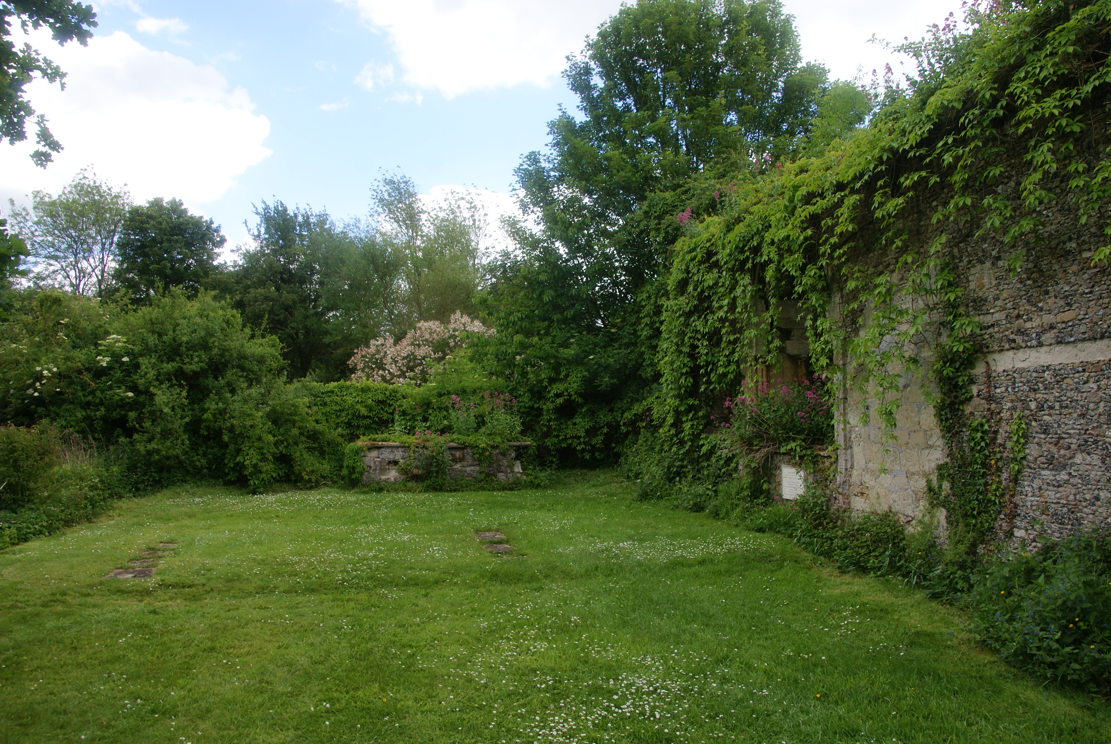 The old church at Clare Priory